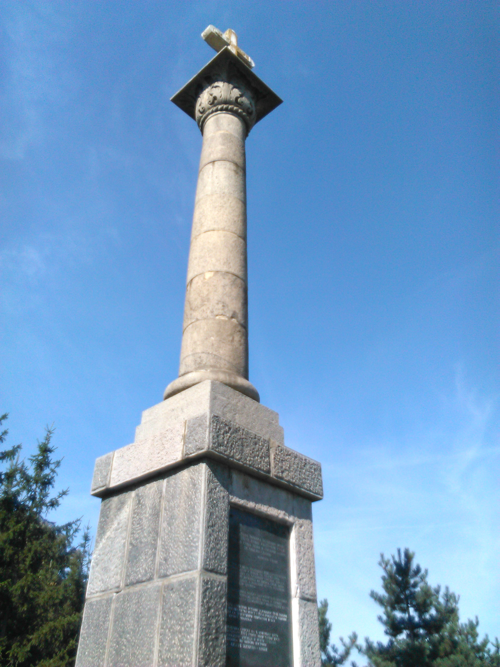 monument-doboj-concetration-camp-WWI